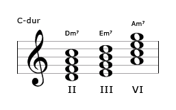 Minor seventh chords (m7) in C-dur